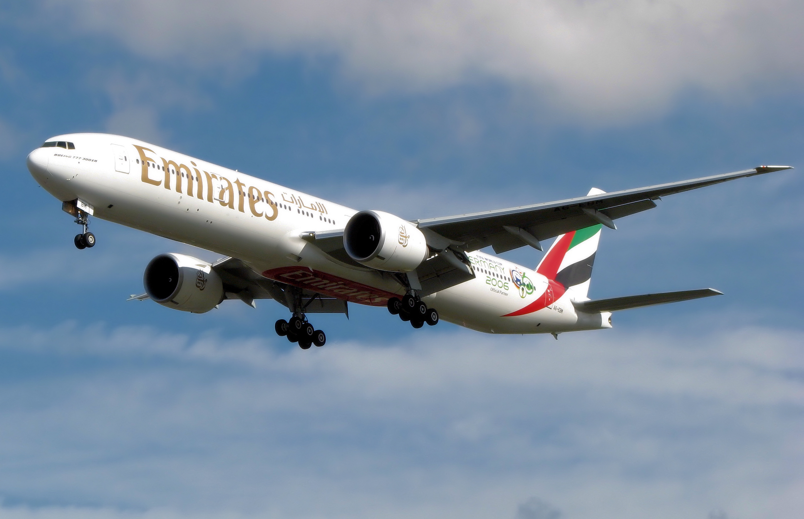 Emirates Boeing 777-300ER (A6-EBM) lands at London Heathrow Airport, England.